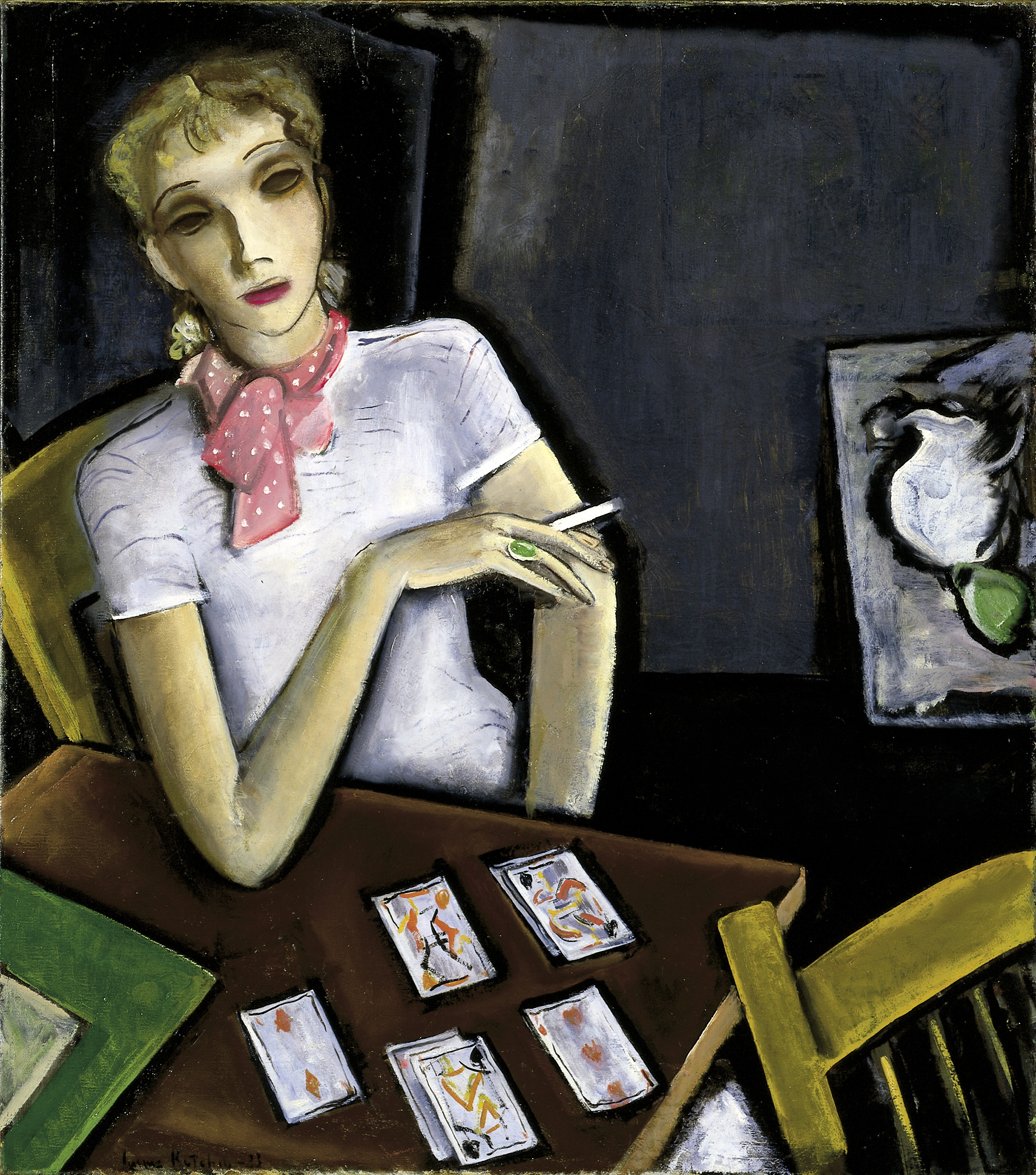 Scan from color transparency